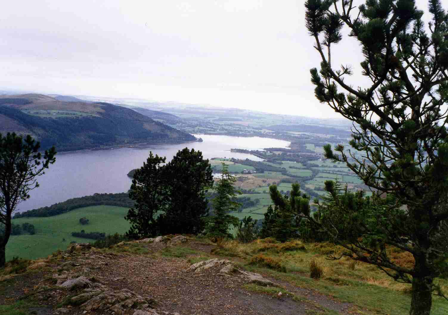 Personal photograph taken by Mick Knapton